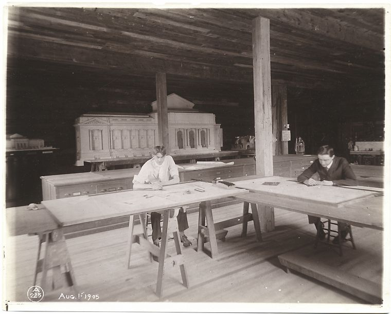 View of the workshop of the architectural firm Carrere and Hastings. Courtesy of the New York Public Library Digital Collection.